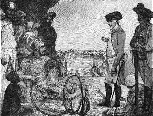 Shah Alam II, Mughal Emperor of India, reviewing the East India Company's troops, painted 1781. An illustration from A Short History of the English People, by John Richard Green, illustrated edition, Volume IV, Macmillan and Co, London, New York, 1894.